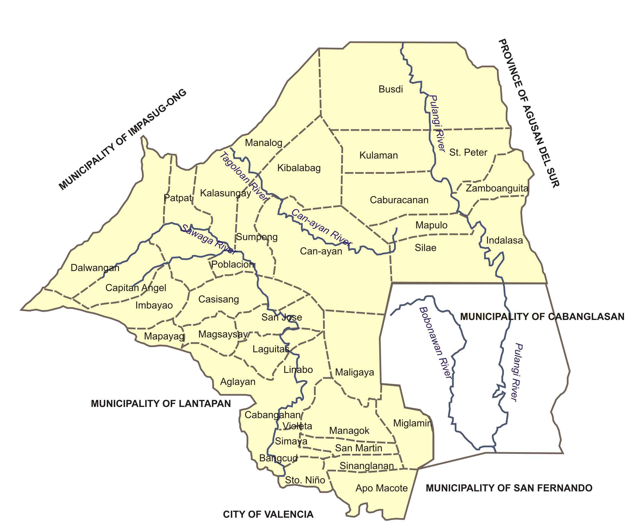 Political map of Malaybalay City